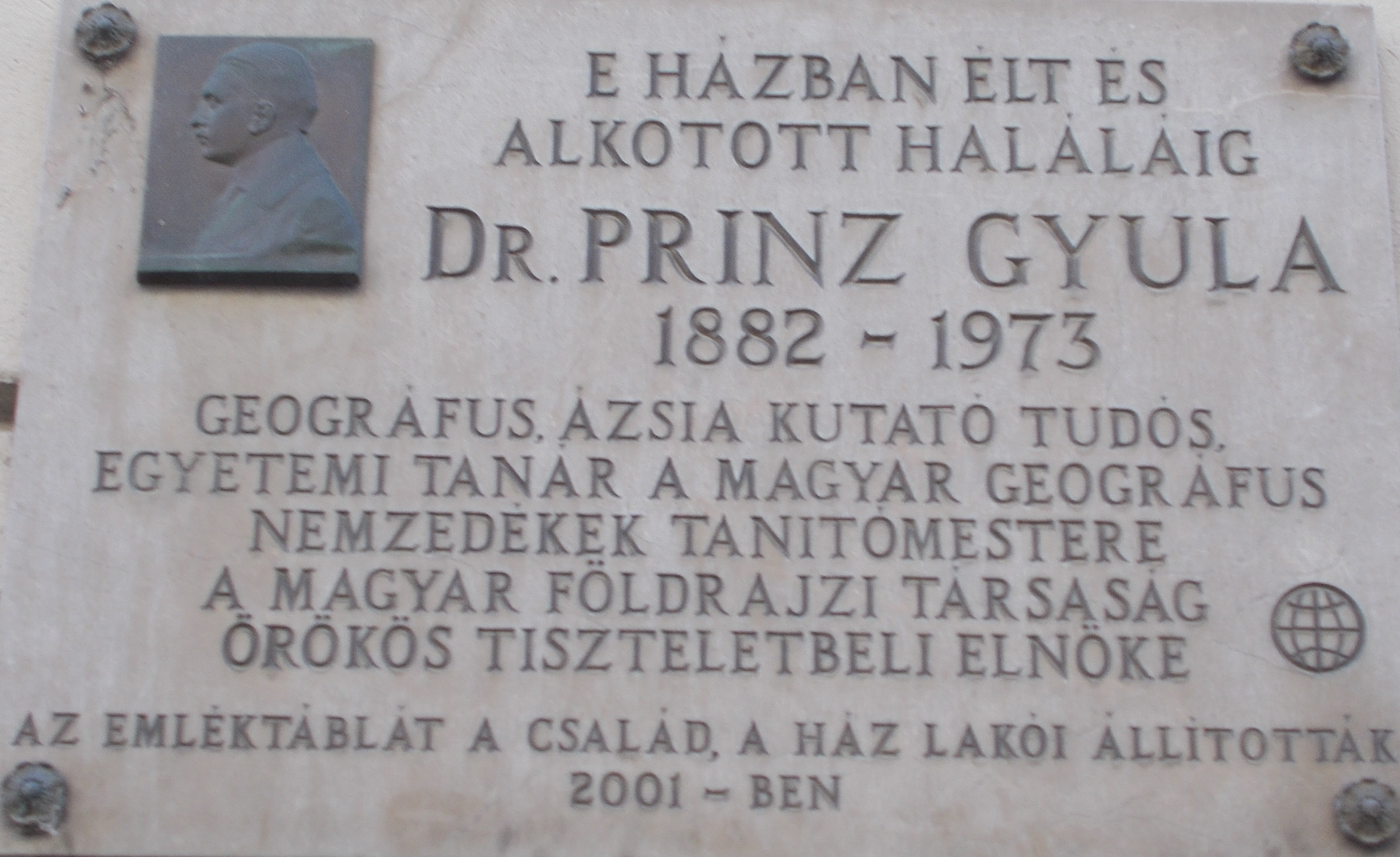 Listed dwelling building. - Pauler Street, Budapest District I., Hungary.